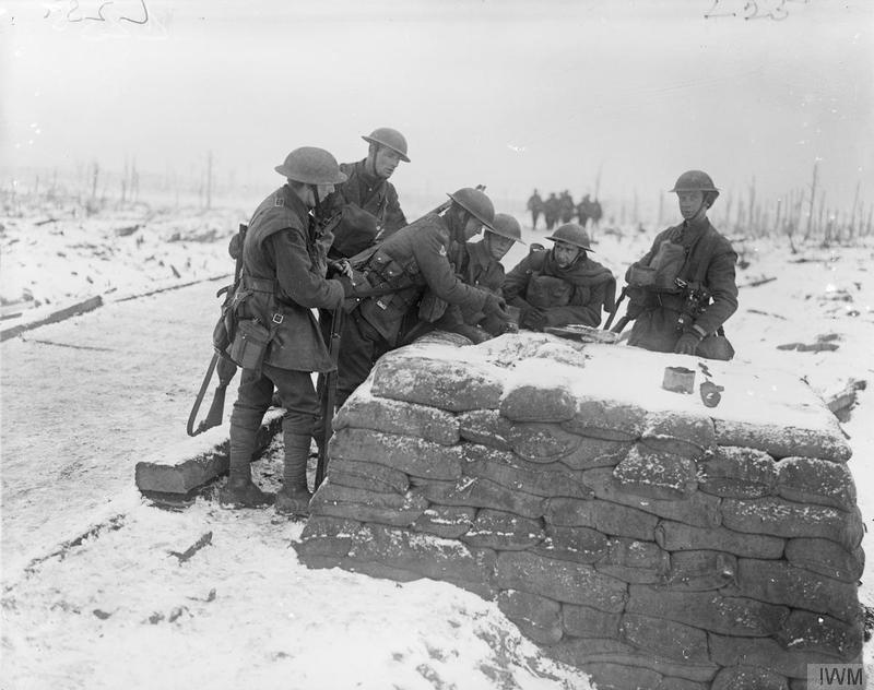 The British Army on the Western Front, 1914-1918 Men of the 2/7th Battalion, Manchester Regiment on the Menin Road, 27 December 1917.